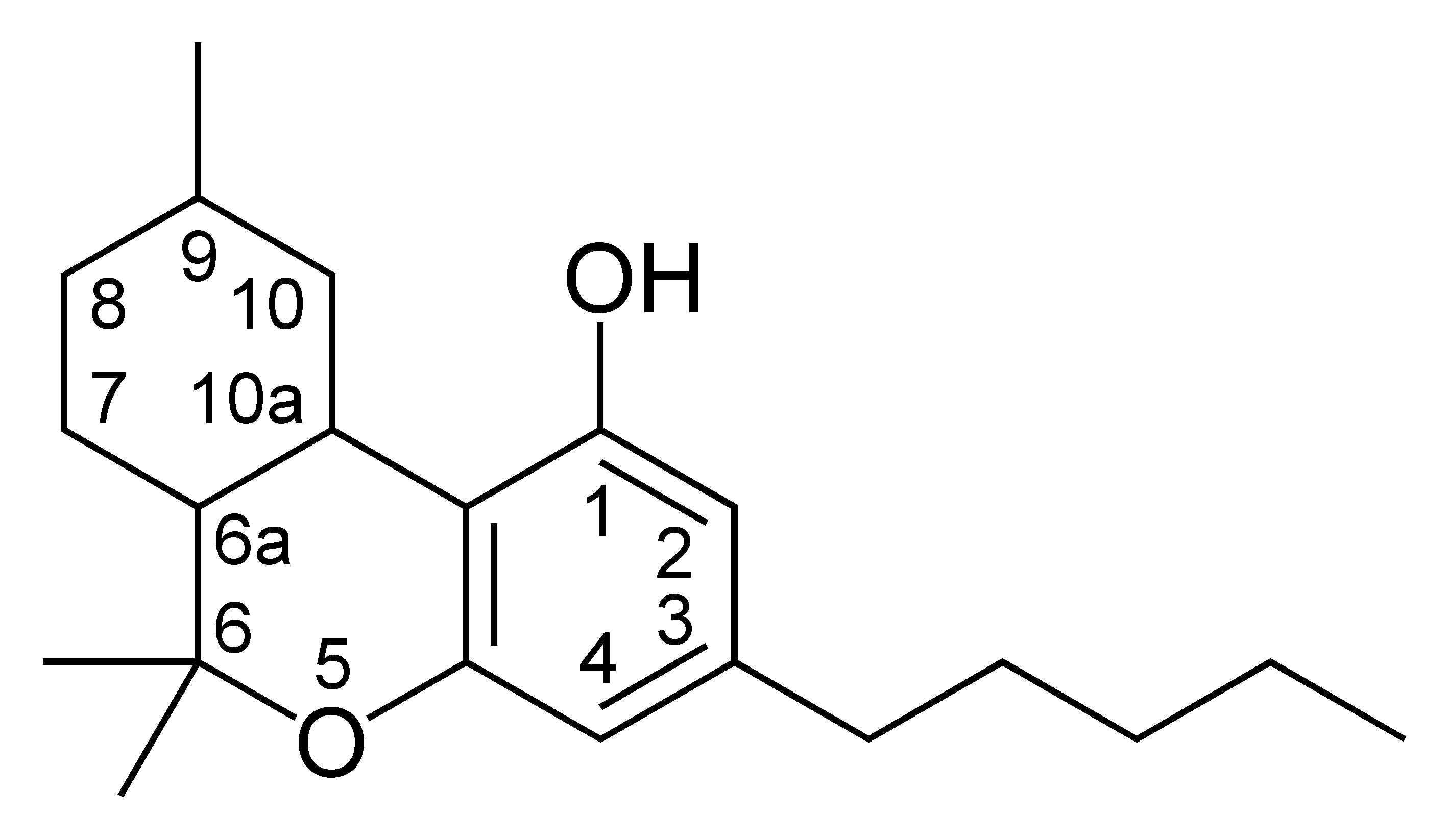 Description: chemical structure of a CBN-type cannabinoid Author: Cacycle Date of creation: 9 January 2006 (UTC) Source: selfmade Copyright: GNU Free Documentation License (GFDL) Creative Commons License (attribution, sharealike, 2.5) (cc-by-sa-2.5) Comments: high-resolution black/white PNG made with ChemDraw and IrfanView — see my Wikipedia user talk page for a detailed description. Please drop me a note if you want to change the image or need the ChemDraw .cdx source file.